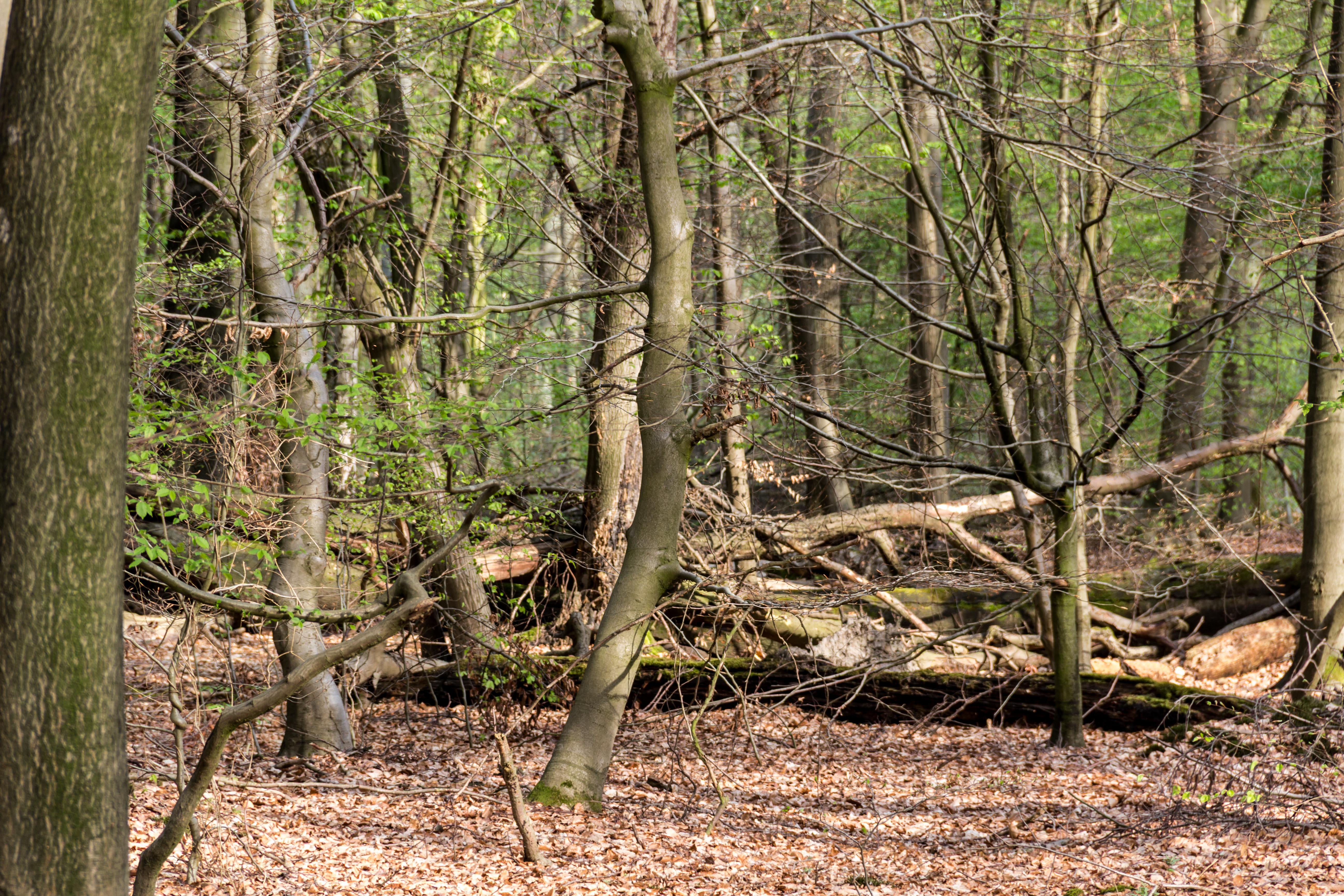 Natural forest “Teppes Viertel” in the Wolbecker Tiergarten in Wolbeck, Münster, North Rhine-Westphalia, Germany